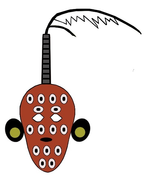 Copy of a Makurian dancing mask as depicted on a mural in the monastery of the Holy Trinity (12th-13th century). The zoomorphic mask is decorated with cowrie shells and an ostrich feather on the top. The eyes are left open, while the mouth is painted on. The mask bears great similarity with dancing masks of the Bambara in present-day Mali. For more info, including the whole dancing scene, see Martens-Czarnecka's "A Scene of a Ritual Dance (Old Dongola – Sudan)" (2008).